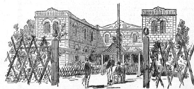 Casino Prado Suburense, in La Llumanera de Nova York magazine of August, 1878